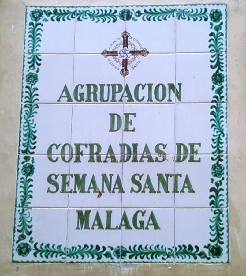 Association of Brotherhoods of the Holy Week of Málaga, Spain